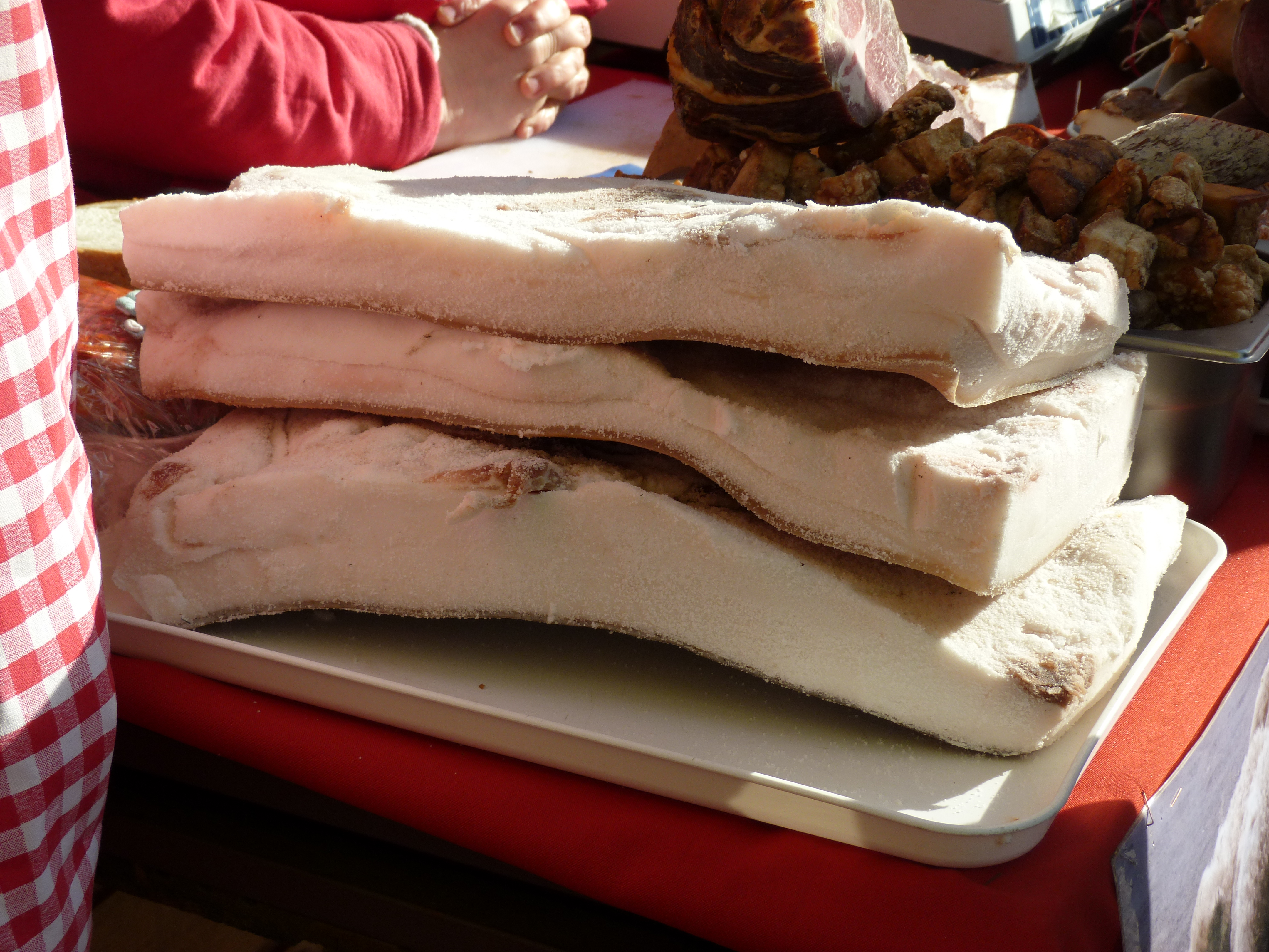 Bacon (Hungarian: mangalica, UK: mangalitza). Live on the 8th of February, 2013. Budapest, Szabadság tér. Mangalitsa Festival – Exibition and Fair. The best licenced small-scale producers and product vendors bring their excellent goods which you can taste fresh made on the spot accompanied by high-class wine. On the stage light music and folk music programs change each other. The blonde Mangalitsa was developed from older hardy types of Hungarian pig (Bakonyi and Szalontai) crossed with the Hungarian Wild Boar breed of Hungarian origin and later others like Alföldi and the so called “turkish pig”, mangalitza from Serbia. Mangalitzas will happily rear their young (who are born striped like wild boars) in outside arks all year round without the need for additional heat and light. Mangalitsa is a more and more raw popular food of paleo life. The average diet among modern hunter-gatherer societies is estimated to consist of 64–68% of animal calories and 32–36% of plant calories with animal calories further divided between fished and hunted animals in varying proportions (most typically, with hunted animal food comprising 26–35% of the overall diet). High percentage of animal flesh is one of the key features of the paleolithic diet. Mangalitza is an animal with wild ancestors, bred bred in natural circumstances, on natural raw food on the hungarian puszta. Sourches: mangalicafesztival.hu, Mangalica Tenyésztők Országos Egyesülete Tags: puszta wild animals paleolithic diet mangalitsa mangalica mangalitza Budapest 2013 pigs Források: mangalicafesztival.hu, Címkék: Mangalica 2013Szalonna